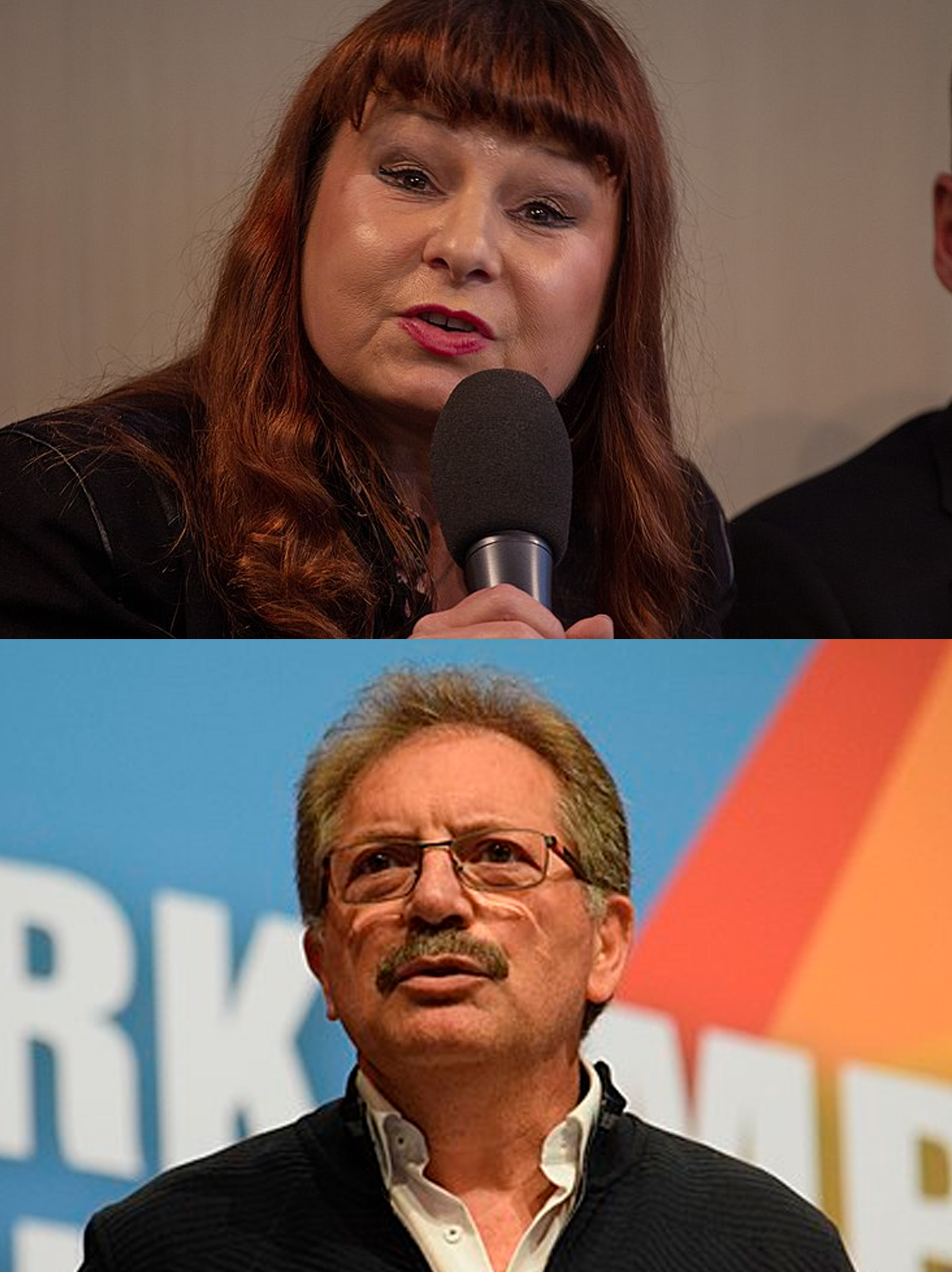 Violeta Tomić & Nico Cué, PEL candidates 2019